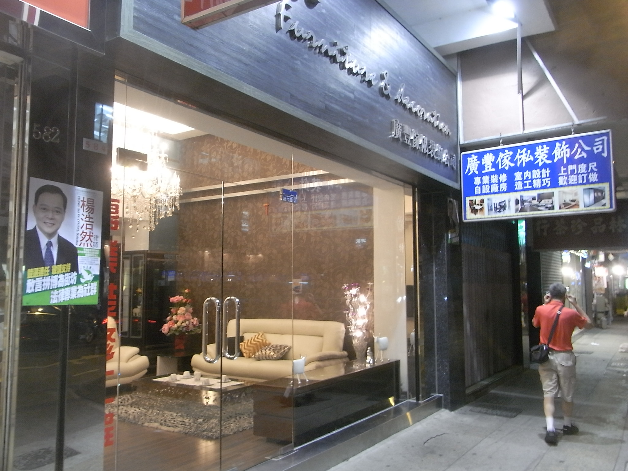 中文（香港）: 香港民主黨楊浩然 poster for 2011 District Council Election in Hong Kong